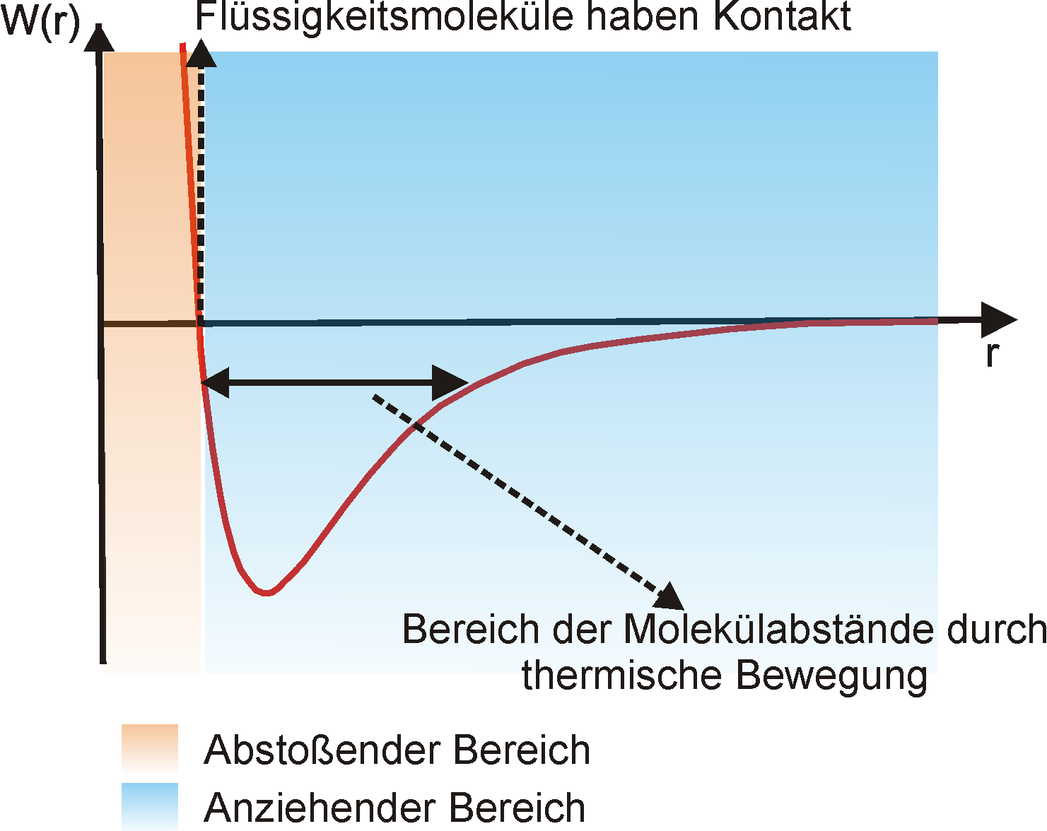 Lennard Jones Potential describing the attractive and repulsive forces in a liquid.